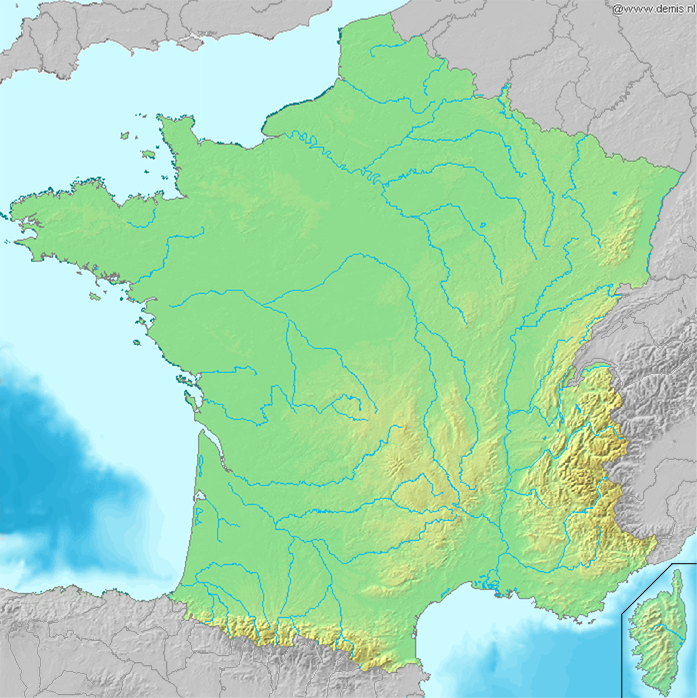 Map of France with Corsica, only France colored This version is with an indication that Corsica is not located at its real location but in this map because it's part of the country. Hope it won't be deleted again. The point is not to have an accurate position of the Corsica. It is to have a map to locate a city. When I was at school in France, there were very few maps with the Corsica at its GPS location.